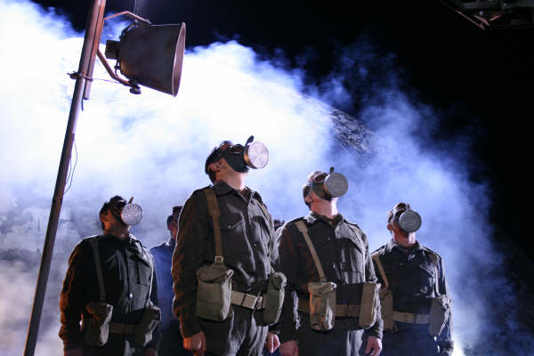 "Guilt", a feature by Vassilis Mazomenos